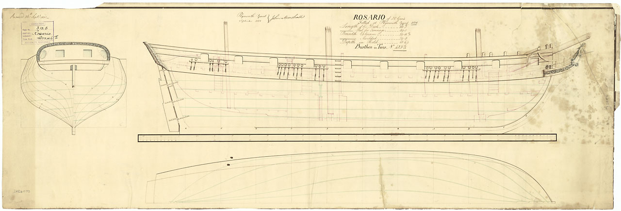 Scale: 1:48. Plan showing the body plan with stern board outline and some decoration, sheer lines with inboard detail and figurehead, and longitudinal half-breadth for Rosario (captured 1800), a captured French privateer, as fitted as an 18-gun Ship Sloop. black ink; green ink; grey colourwash; red ink; paper. Sheet: 371 mm x 1101 mm